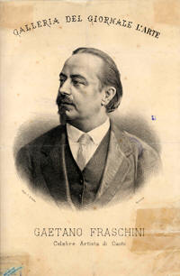 Taken from - due to its age it's in the public domain